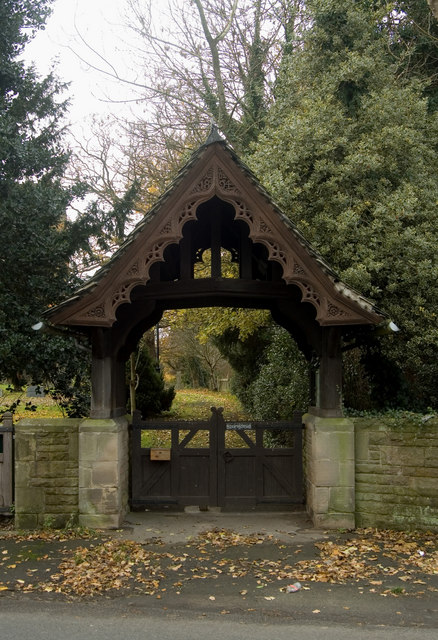 Lych Gate at St. John The Baptist Church, Stanford on Soar